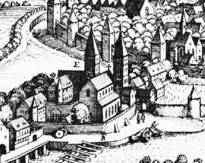 Monastery St. Martin in Trier. Engraving from 1646, but the view is probably taken from 1548; see commentary on image:De Merian Mainz Trier Köln 045.jpg.